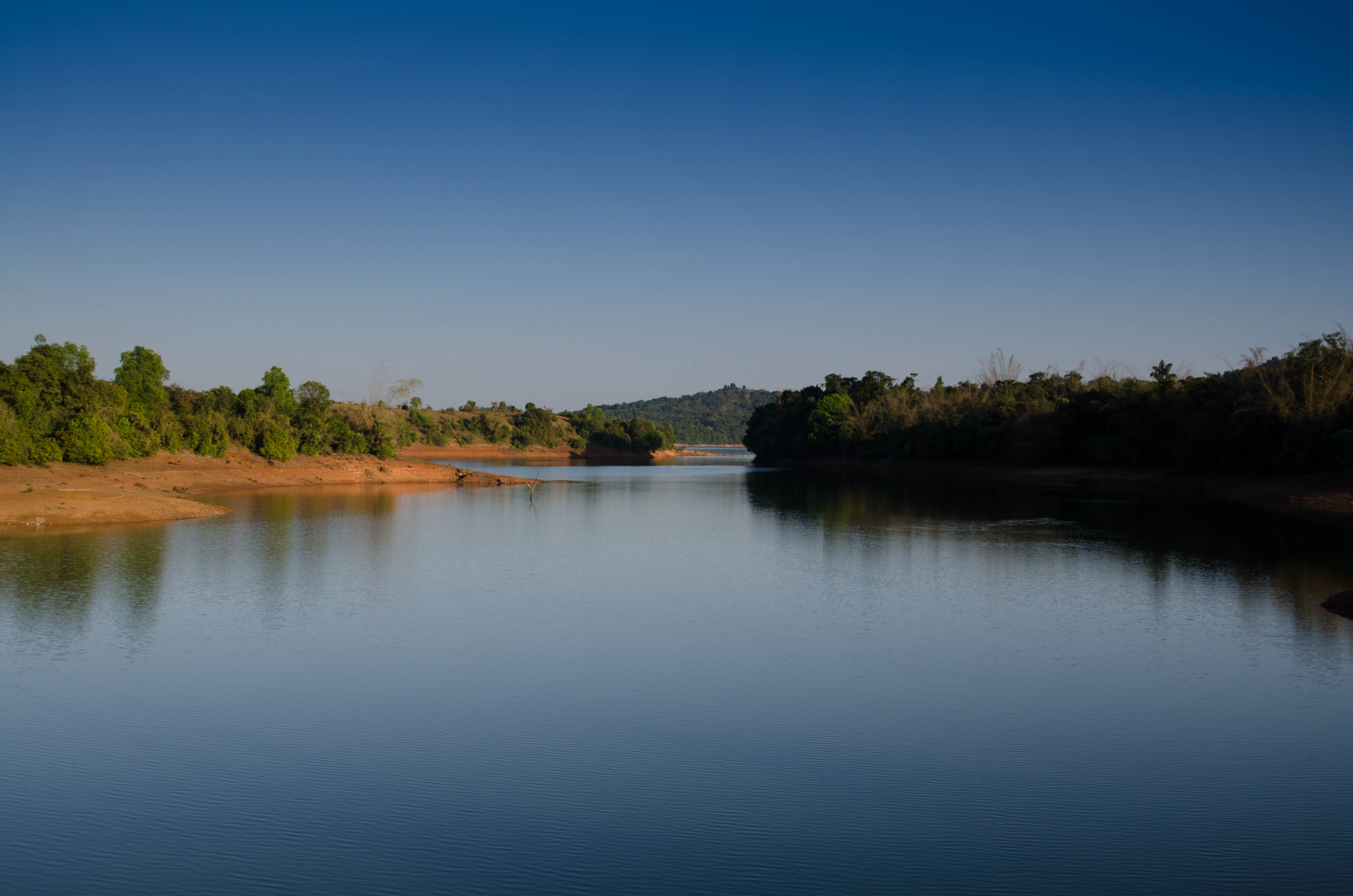 Sharavathi s a river which originates and flows entirely within the state of Karnataka in India. It is one of the few westward flowing rivers of India and a major part of the river basin lies in the Western Ghats. The famous Jog Falls are formed by this river. The river itself and the region around it are rich in biodiversity and are home to many rare species of flora and fauna.